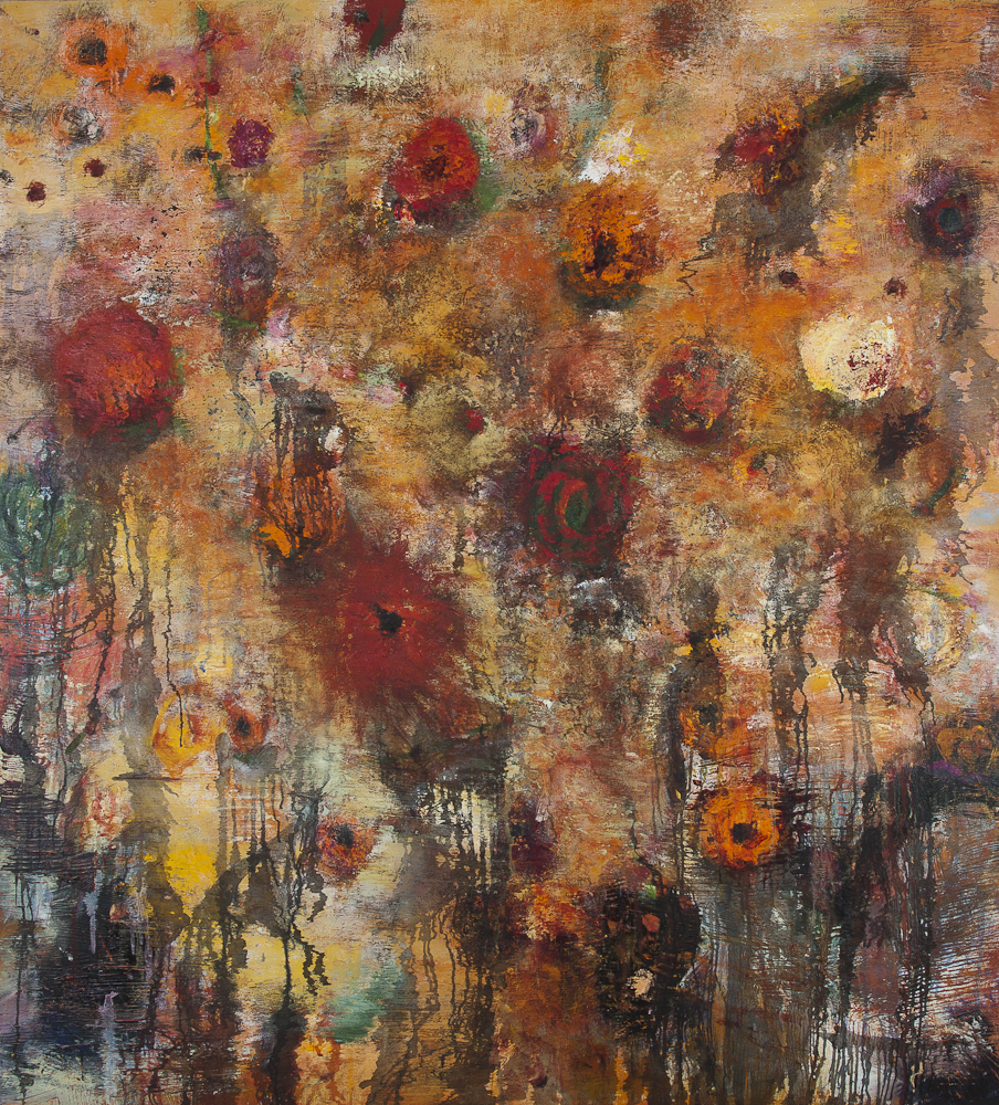 Painting by Adam Shaw